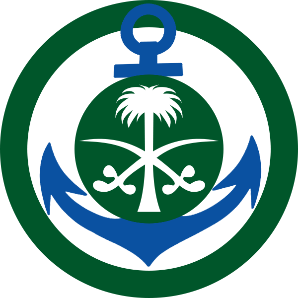 Roundel of the Royal Saudi Naval Aviation